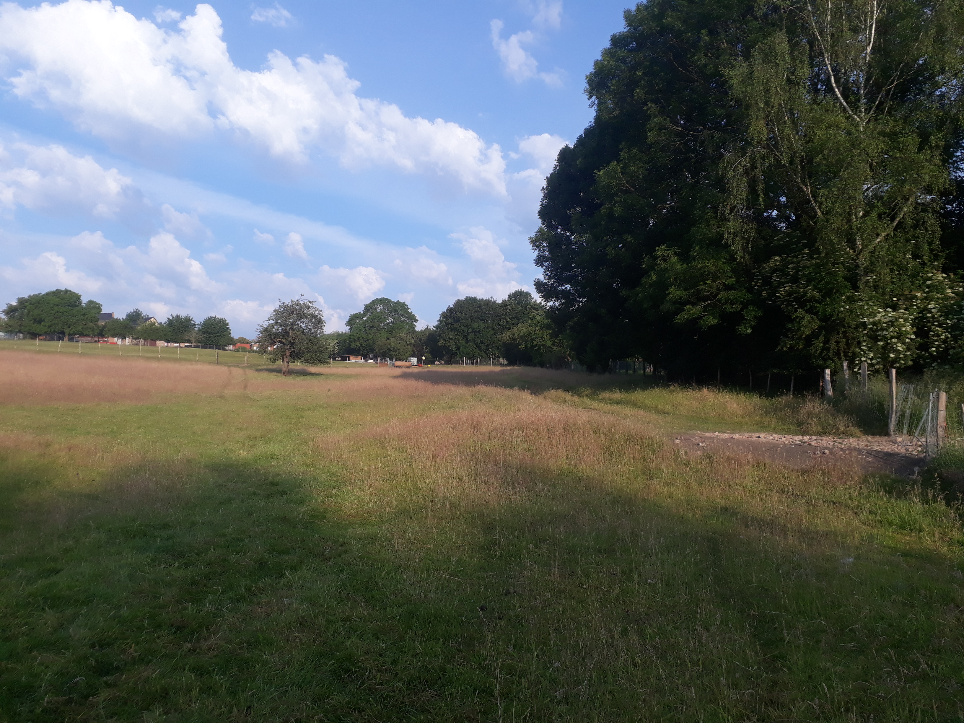 Ås fontinnes - xhavée en amont